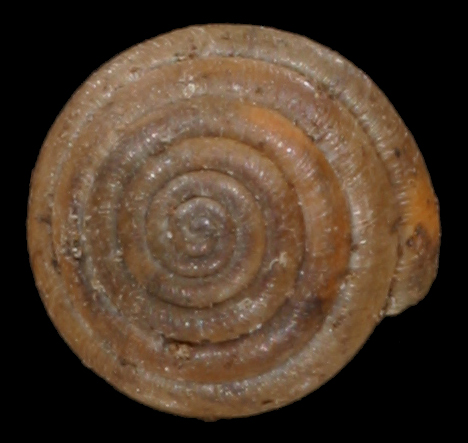 Photo of shell of Petasina unidentata. Locality: Slovakia: Striebornica. Date: 8 September 1980.